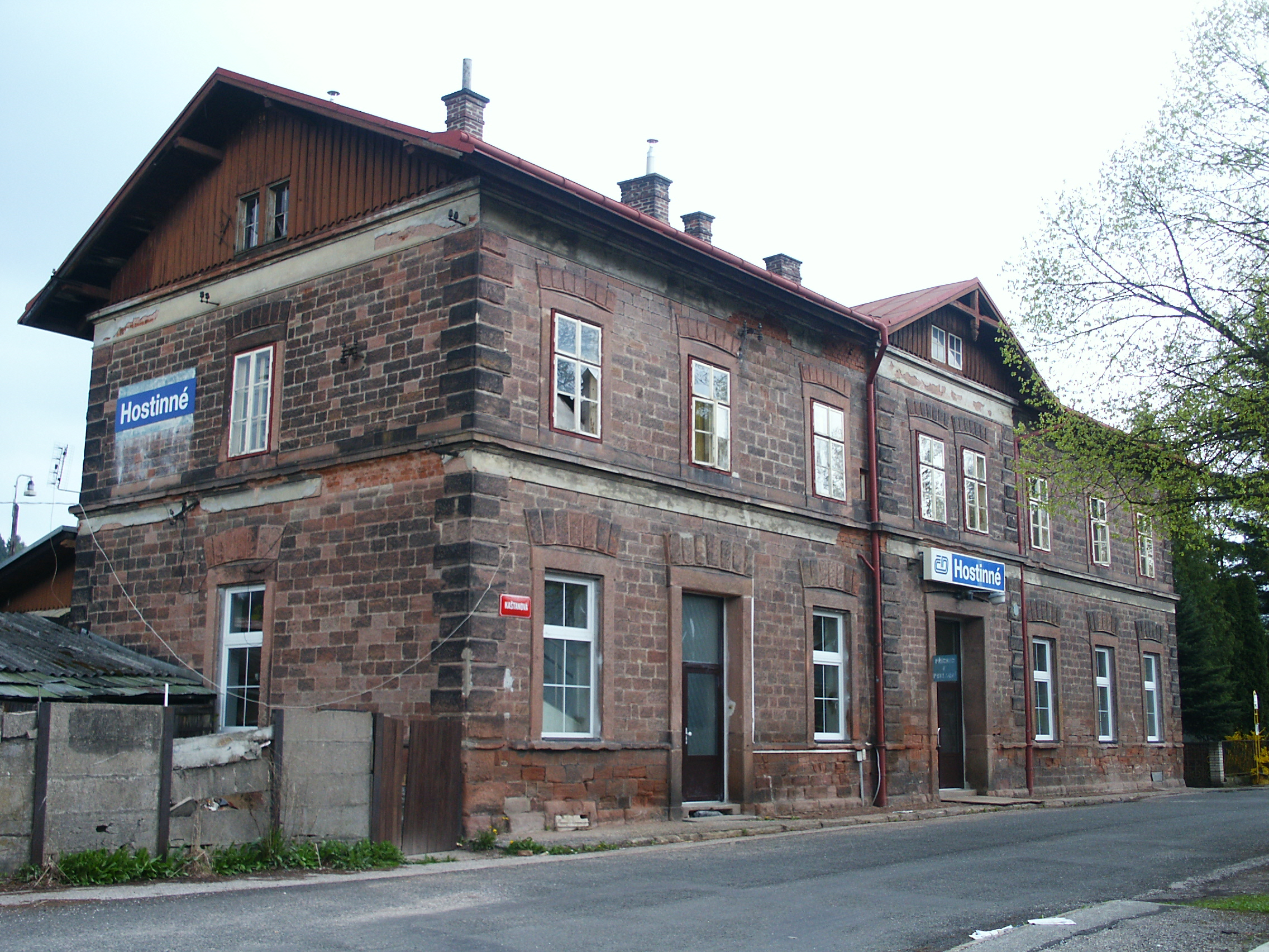 Hostinné - nádraží